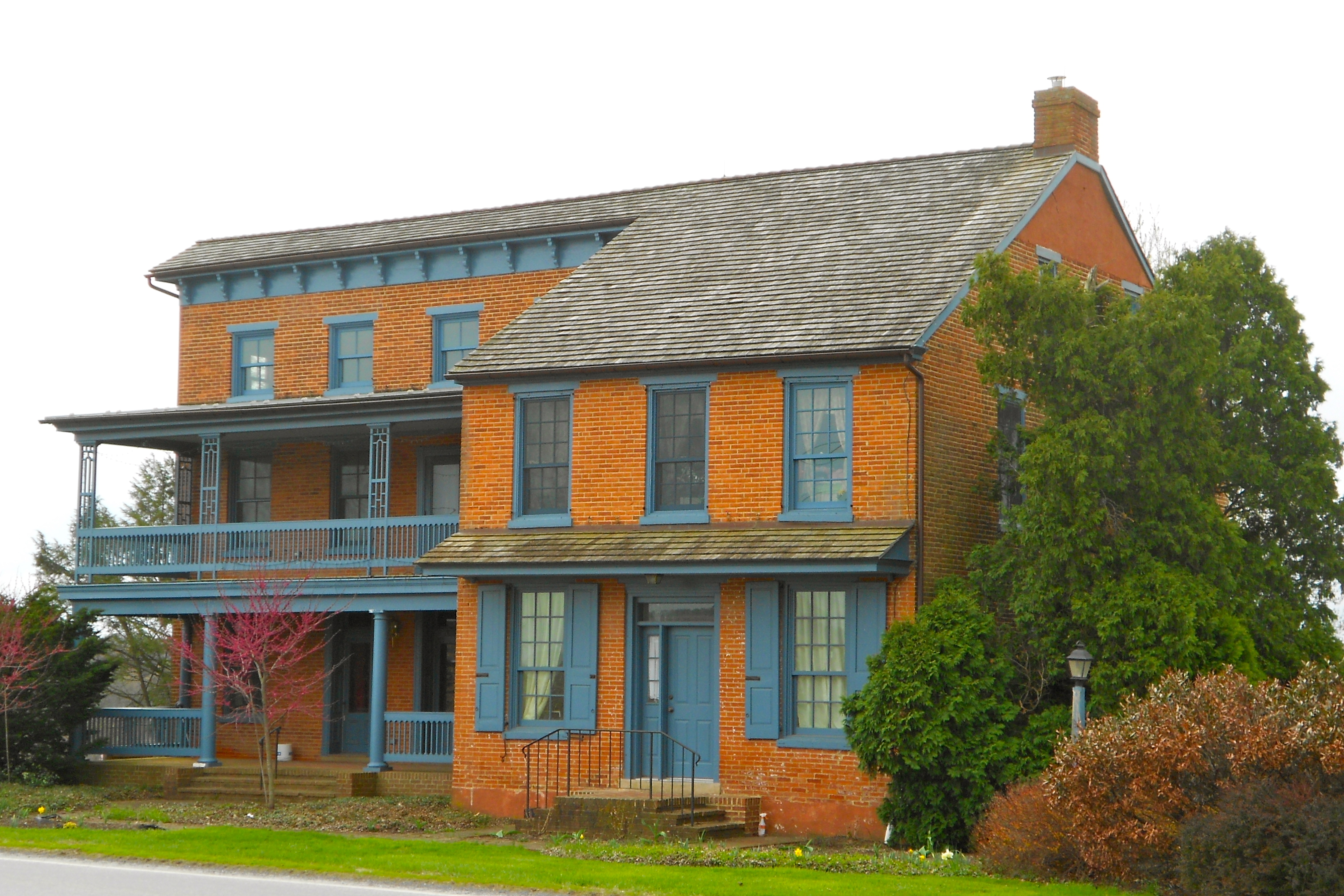 House in Highland Township, Chester County, Pennsylvania, across from the Township Hall on Gum Tree Road